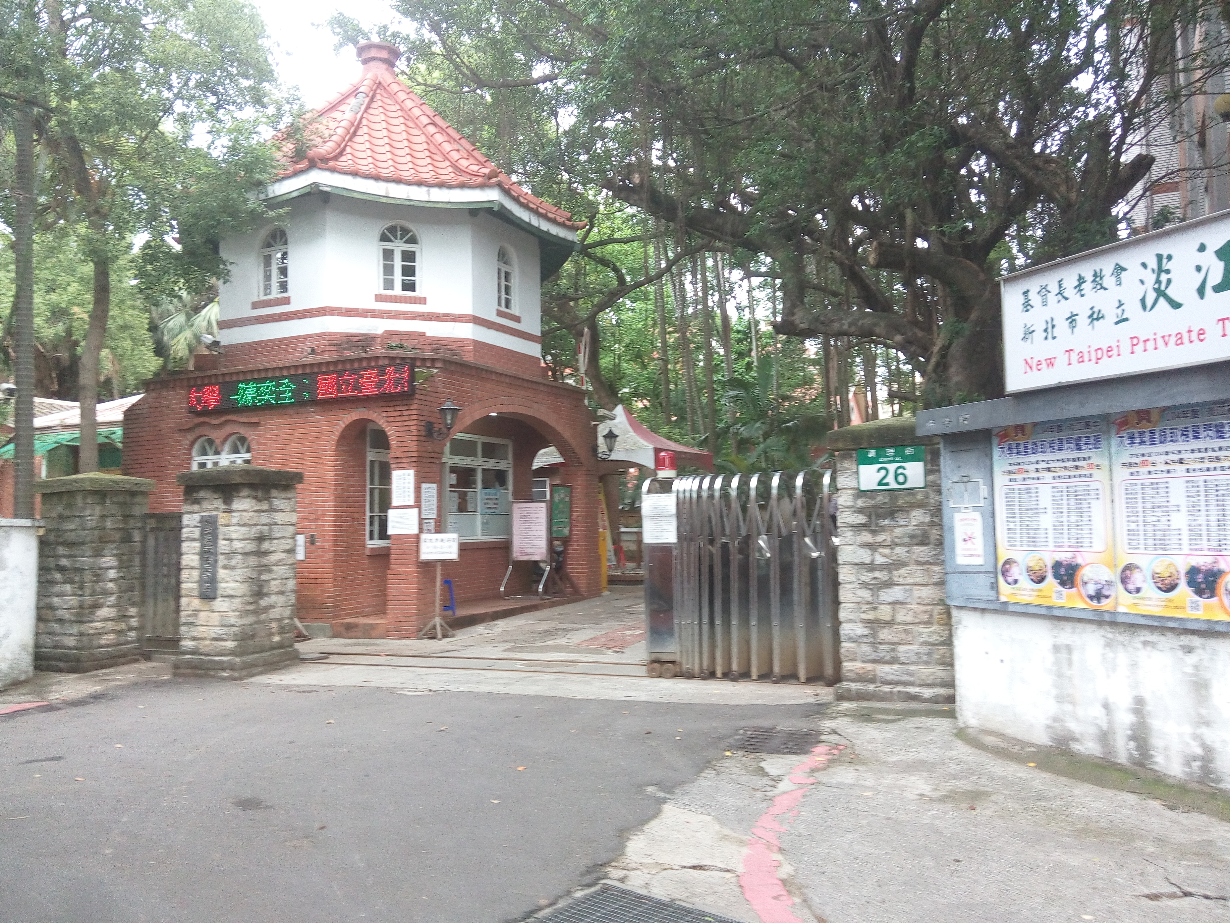 Tang-gang high school's gate.